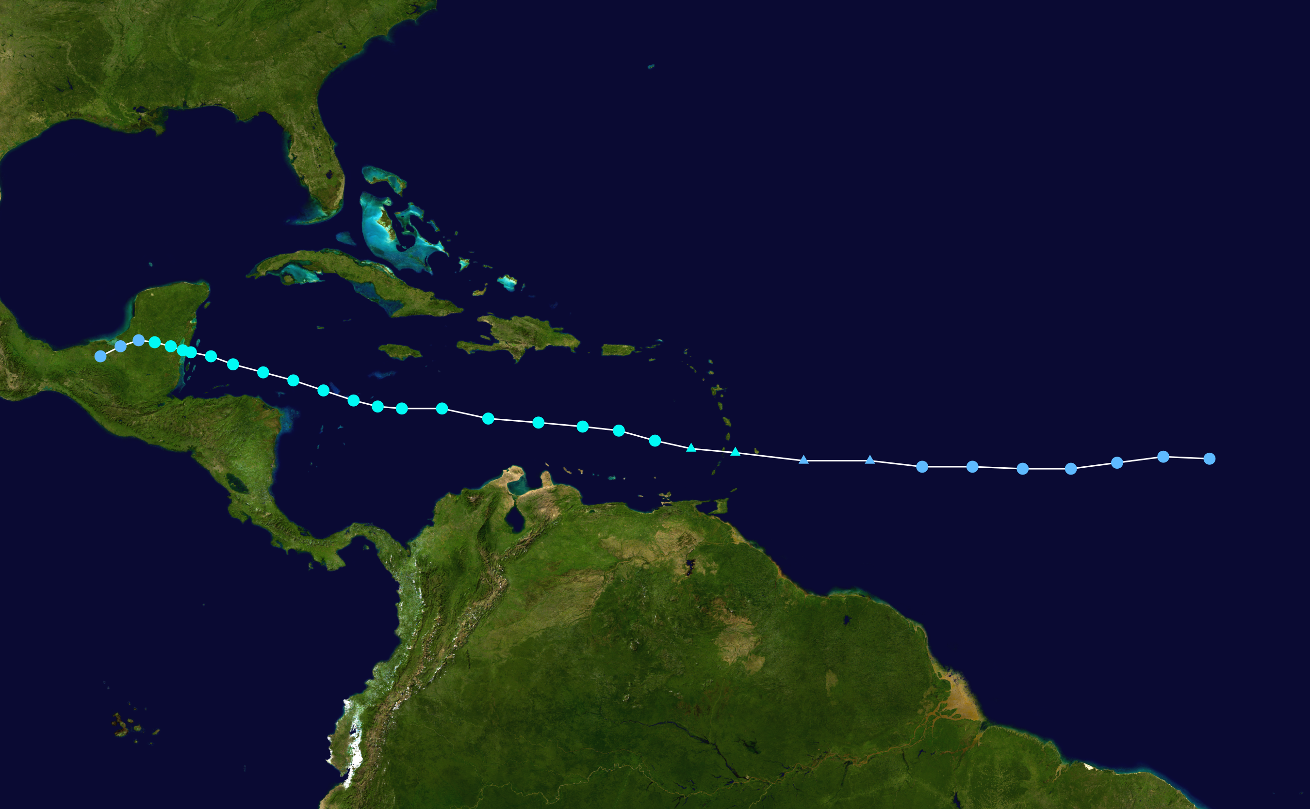 Track map of Tropical Storm Chantal of the 2001 Atlantic hurricane season. The points show the location of the storm at 6-hour intervals. The colour represents the storm's maximum sustained wind speeds as classified in the Saffir–Simpson scale (see below), and the shape of the data points represent the nature of the storm, according to the legend below. Saffir–Simpson scale Tropical depression≤38 mph≤62 km/h Category 3111–129 mph178–208 km/h Tropical storm39–73 mph63–118 km/h Category 4130–156 mph209–251 km/h Category 174–95 mph119–153 km/h Category 5≥157 mph≥252 km/h Category 296–110 mph154–177 km/h Unknown Storm type Tropical cyclone Subtropical cyclone Extratropical cyclone / Remnant low / Tropical disturbance / Monsoon depression